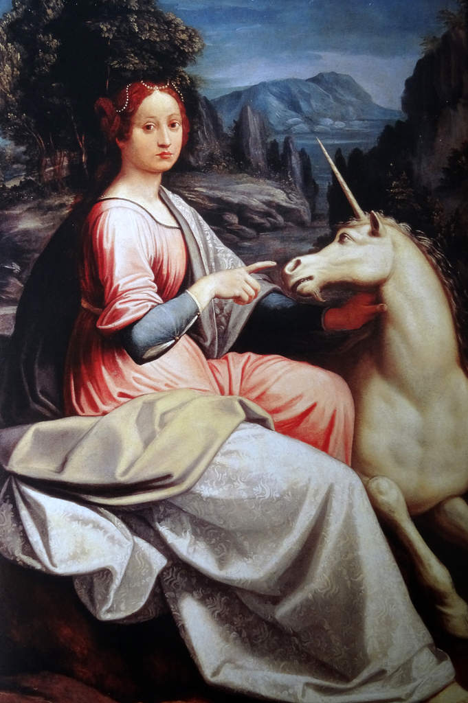 Depicted person: Possibly Giulia Farnese